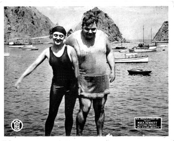 Still from the American comedy film The Sea Nymphs (1914).